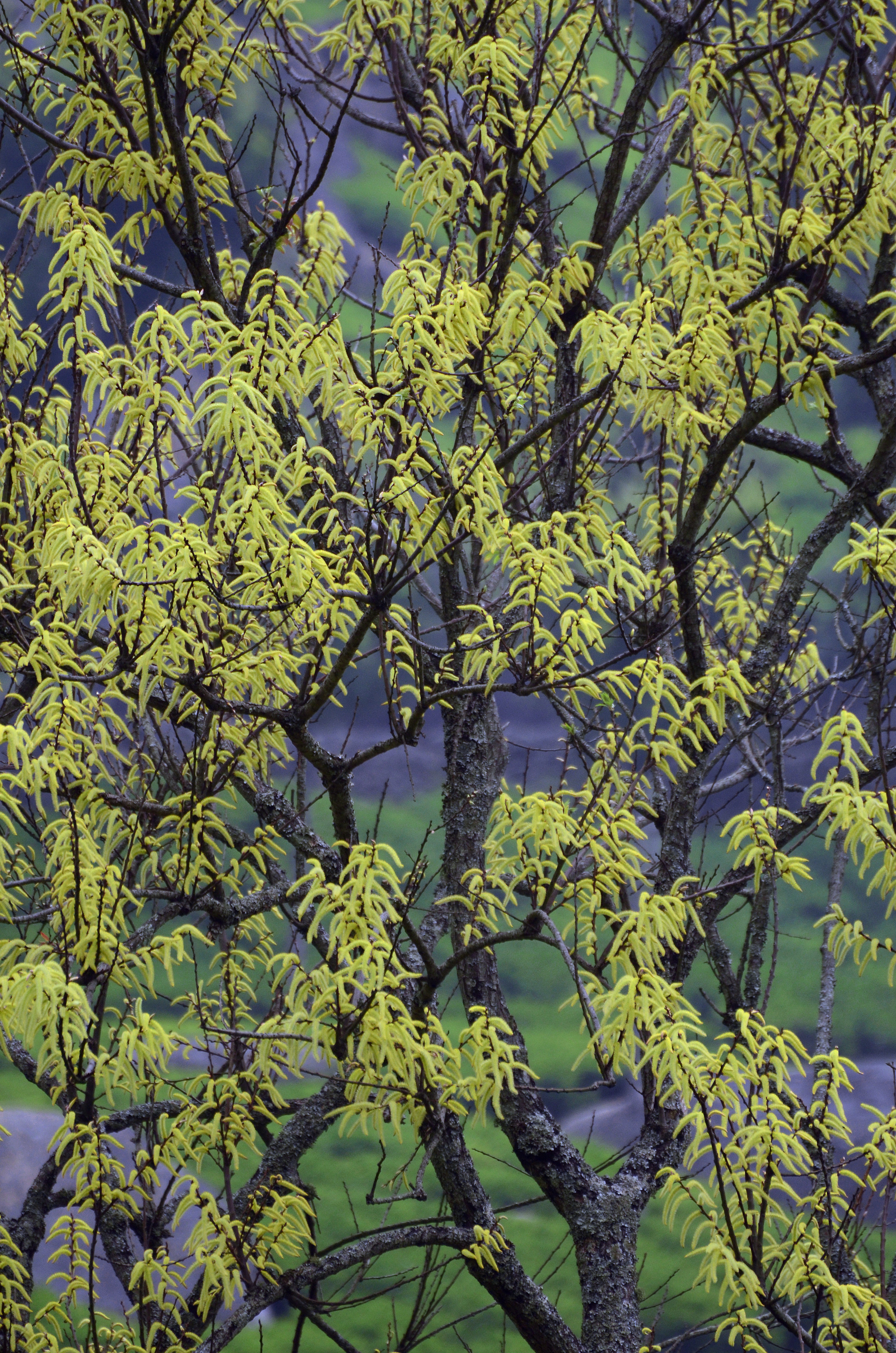 Salix tetrasperma Male tree in full bloom, taken in Nilgiris, Western Ghats